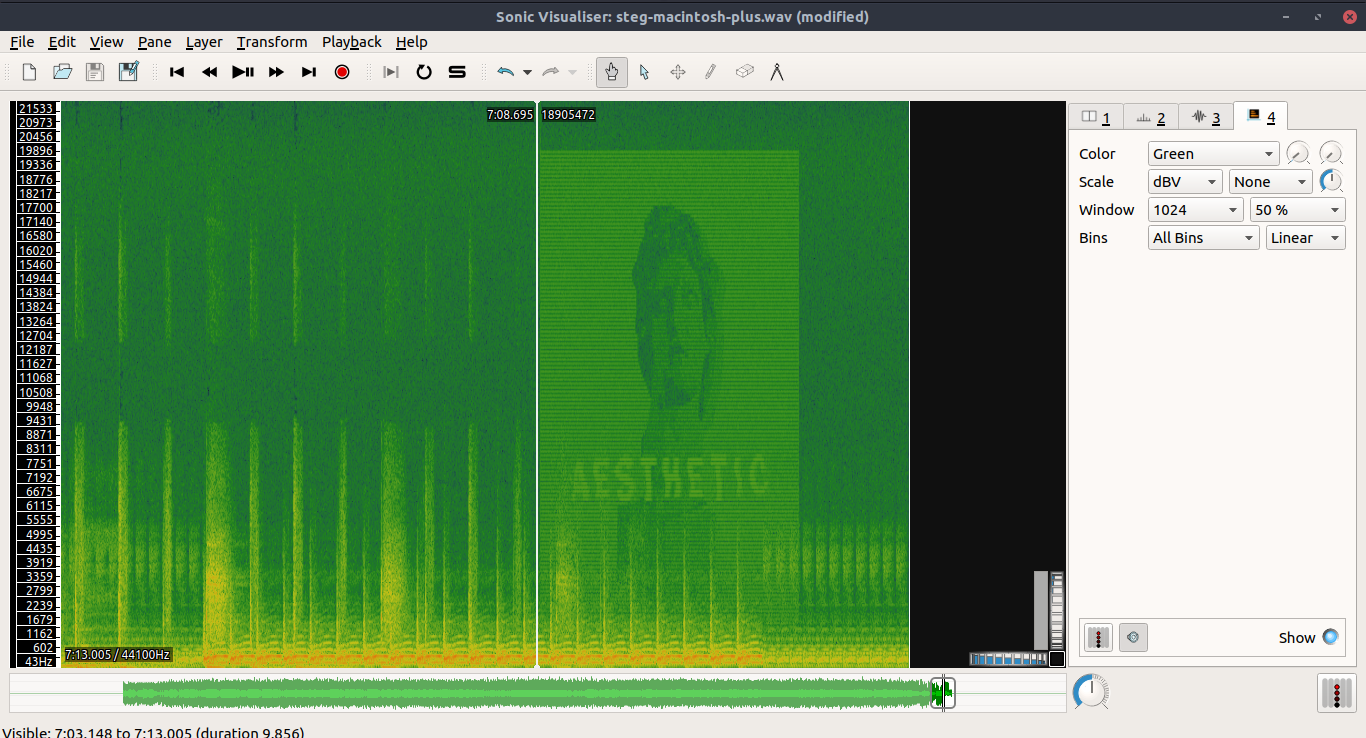 A image hidden in the music spectrogram, visualized by "sonic visualizer"